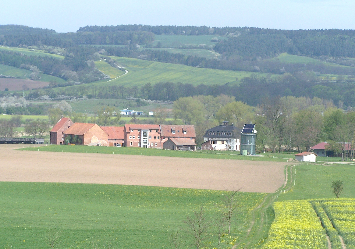 Wilhelmsglücksbrunn in Thuringia.